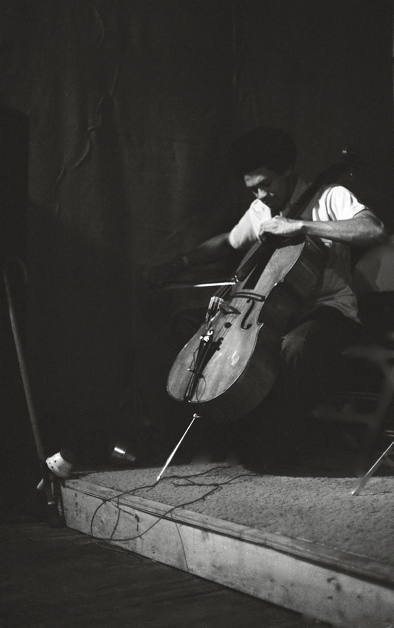 Abdul Wadud Studio Rivbea NYC July, 1976